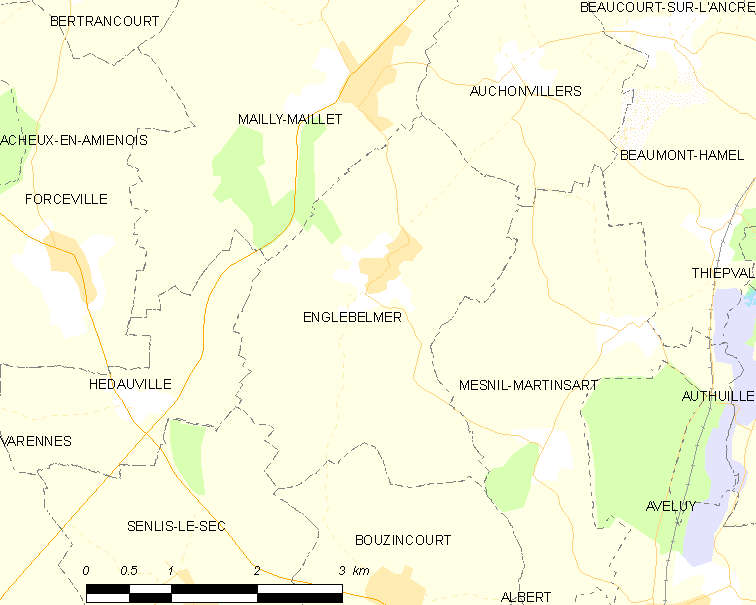 Map of French municipality Englebelmer